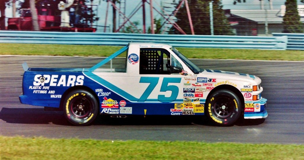 Kevin Harvick drives the No. 75 Spears Manufacturing Chevrolet at Watkins Glen International, August 24, 1997.